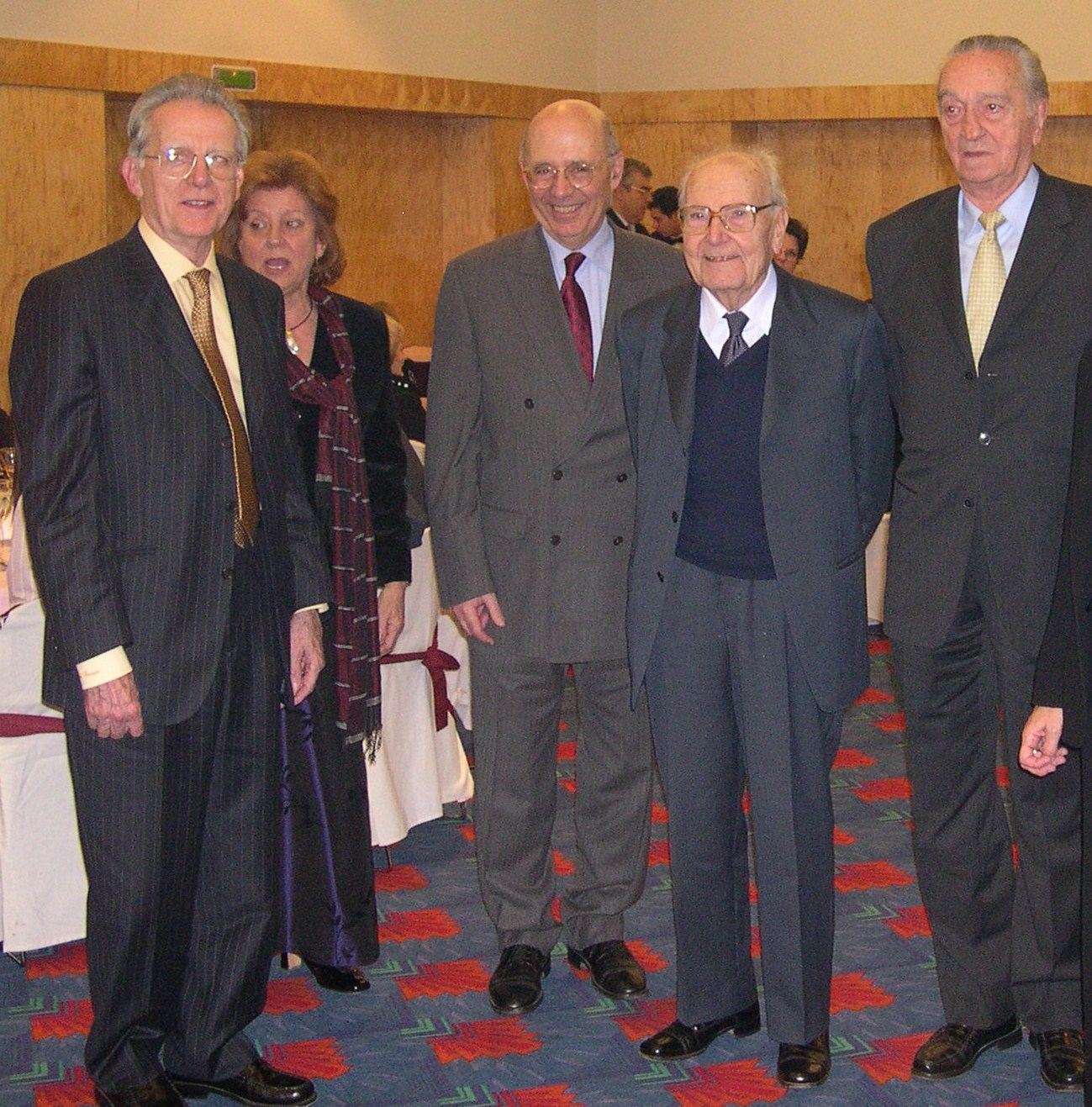 Enric Garriga Trullols (left) with his wife Núria Bayó, and former Presidents of Parliament Joan Rigol, Heribert Barrera and Joaquim Xicoy XXVè during dinner commemorating the anniversary of the founding of the Institute of International renown of Catalan Culture (IPECC), held in 2003